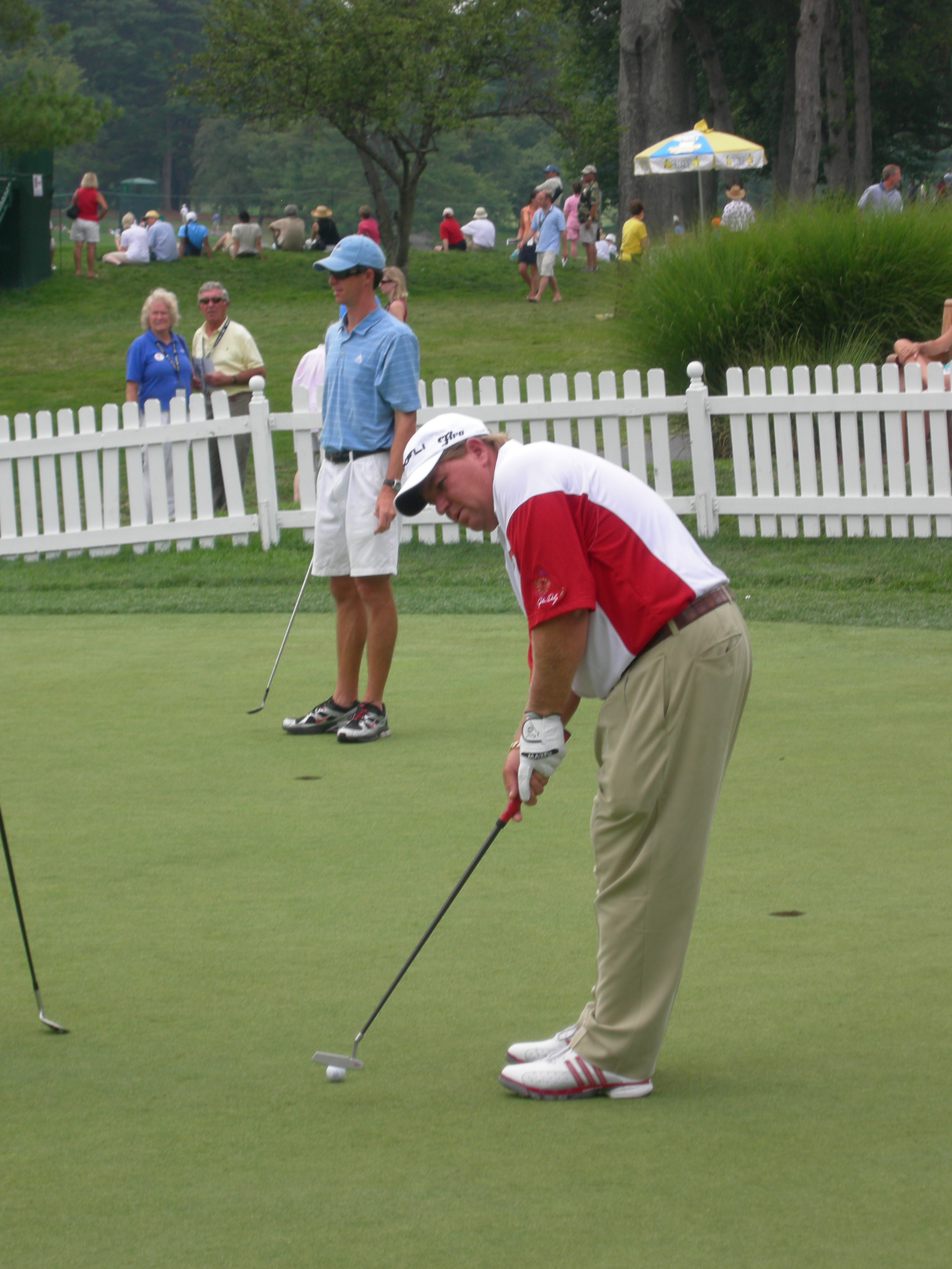 John Daly on the putting green at the Congressional Country Club during the Earl Woods Memorial Pro-Am prior to the 2007 AT&T National tournament.